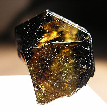 Cassiterite Locality: Viloco Mine (Araca mine), Loayza Province, La Paz Department, Bolivia (Locality at ) Size: thumbnail, 2.2 X 1.9 X 1.3 cm CASSITERITE Brilliantly lustrous, large thumbnail crystal with extremely obvious golden highlights. Nice!